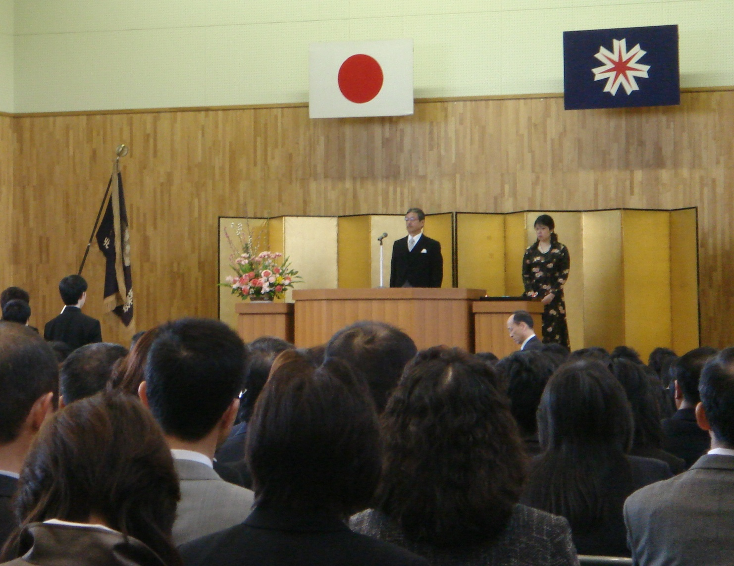 graduation day stage